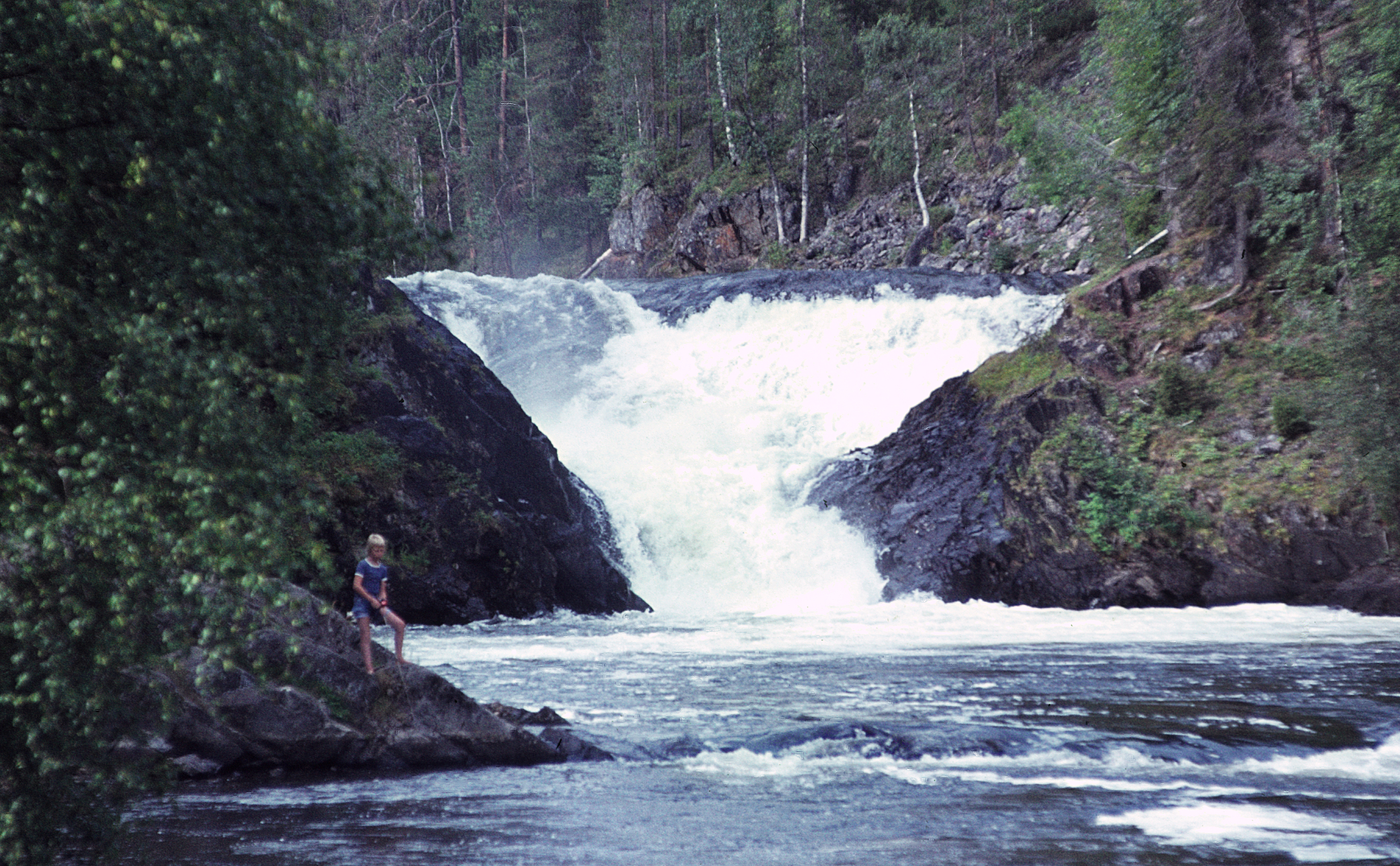 Jyrävä "köngäs" (waterfall) in Kitkajoki river, Kuusamo, Finland, year 1975.